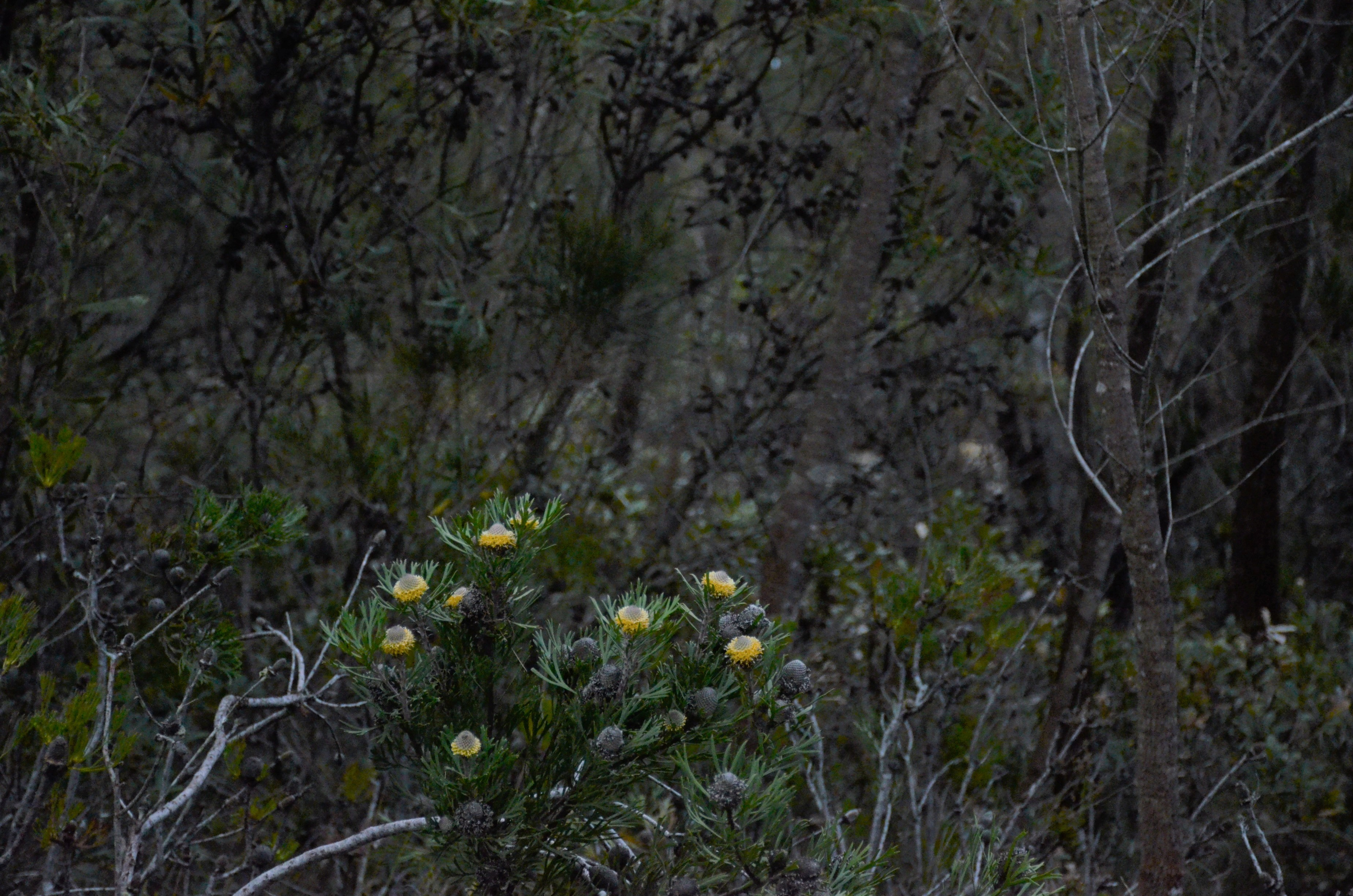 one of flower found in Cambewarra